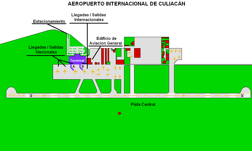 Map with the Culiacan Airport, runway and Air Force Zone.